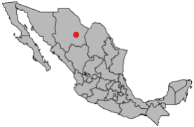 Location map of Delicias, México.